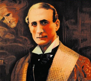 The actor H. A. Saintsbury as Holmes in William Gillette's Sherlock Holmes, on tour c. 1902-03 (detail)